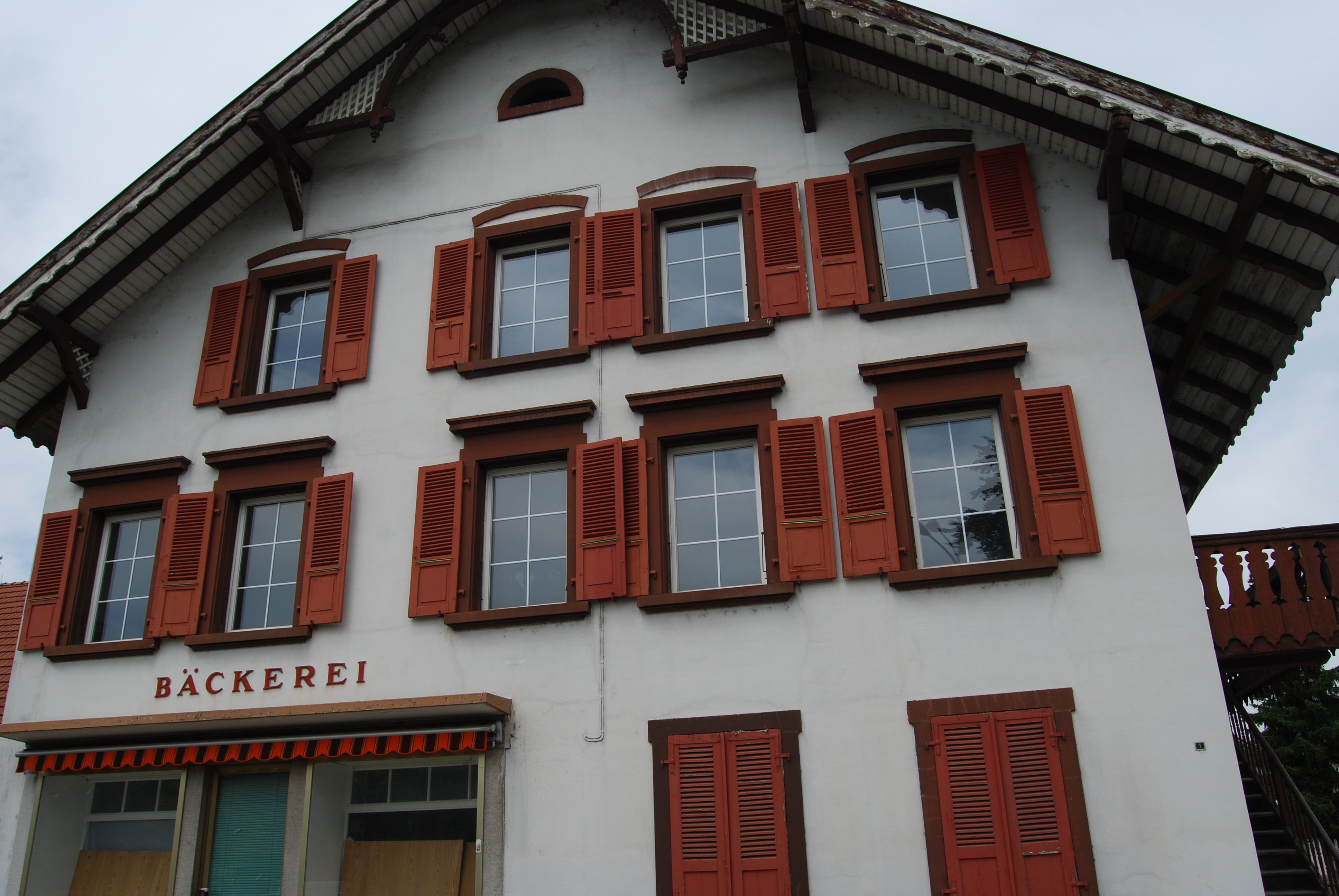 Aegerten, canton of Bern, SwitzerlandEsperanto: Aegerten, Kantono Berno, Svislando